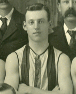 Photograph of Leo Morgan in 1901